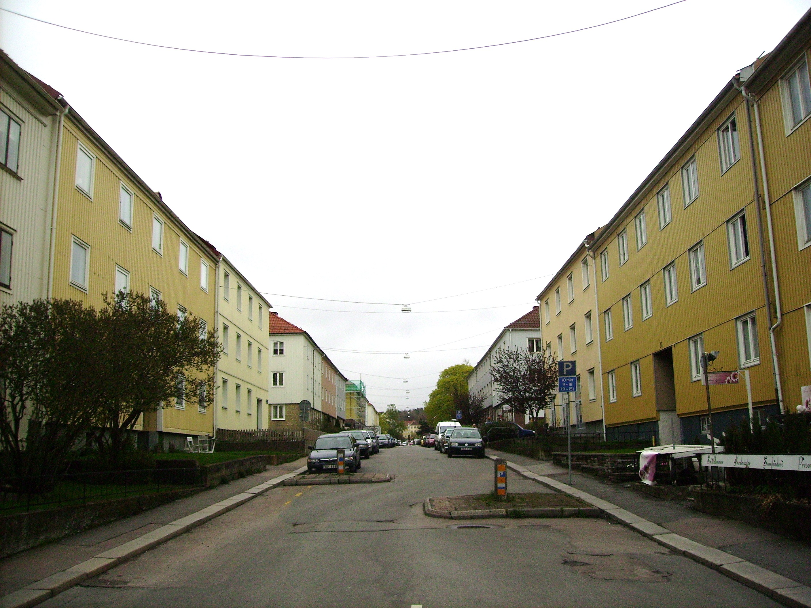 Picture of Björcksgatan in Kålltorp, Göteborg